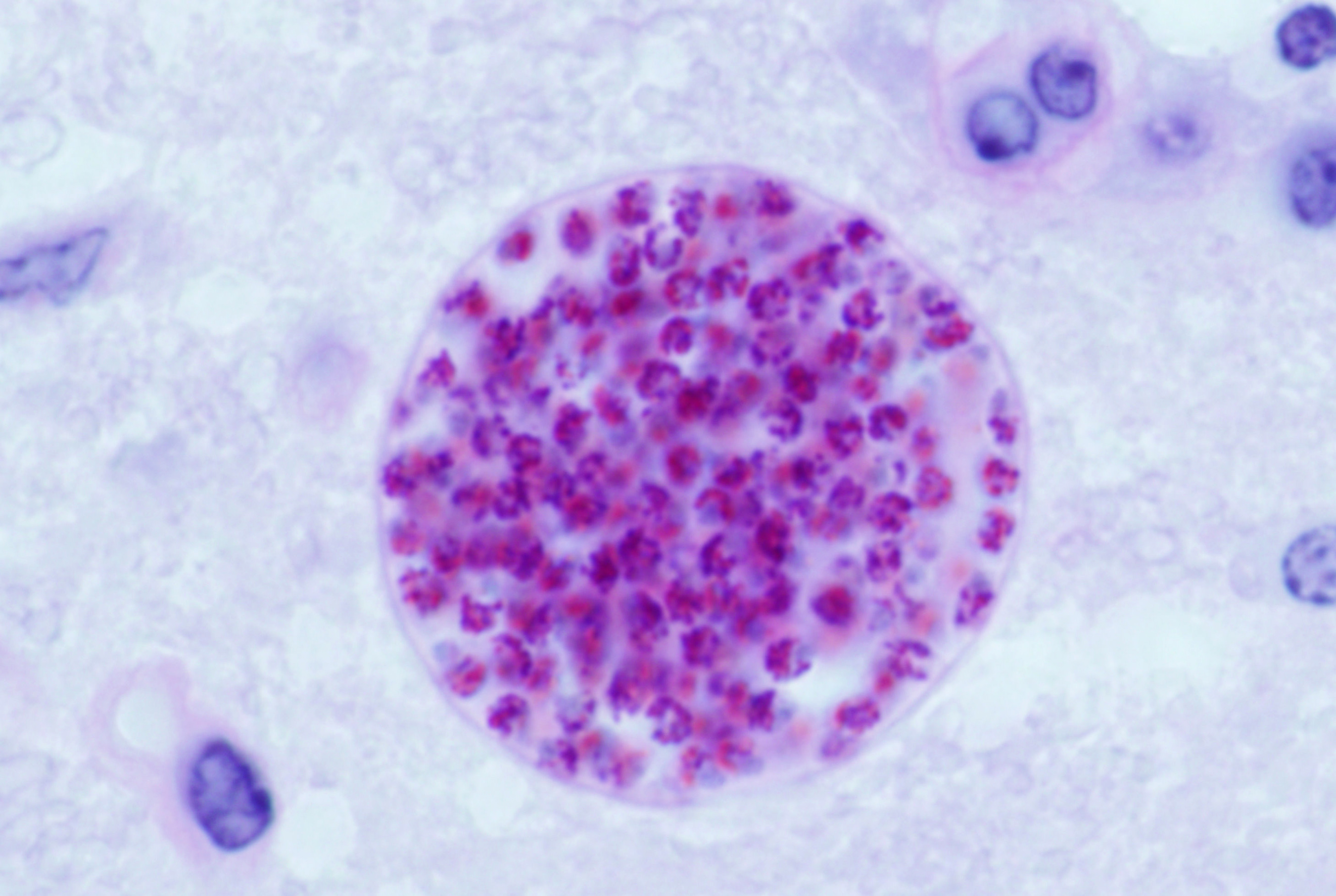 Microscopic cysts containing Toxoplasma gondii develop in the tissues of many vertebrates. Here, in mouse brain tissue, thousands of resting parasites (stained red) are enveloped by a thin parasite cyst wall. Image Number D1210-1